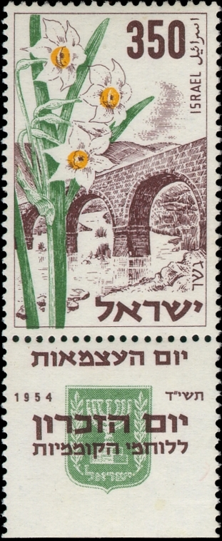 Sixth Independence Day stamp - 350 mil. Inscription: "Gesher". Inscription on tab: "The Sixth Independence Day", "Memorial Day for the Fighters for Independence"